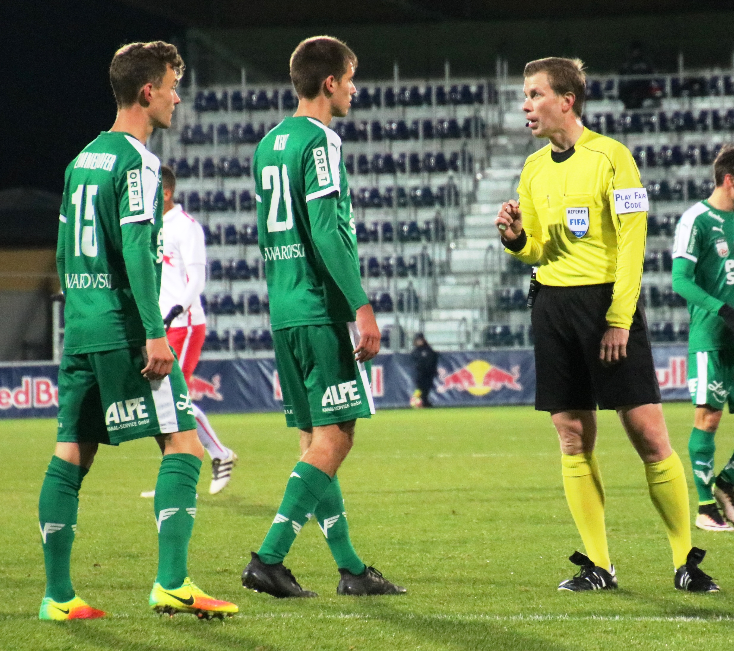 league match Austria 2nd league